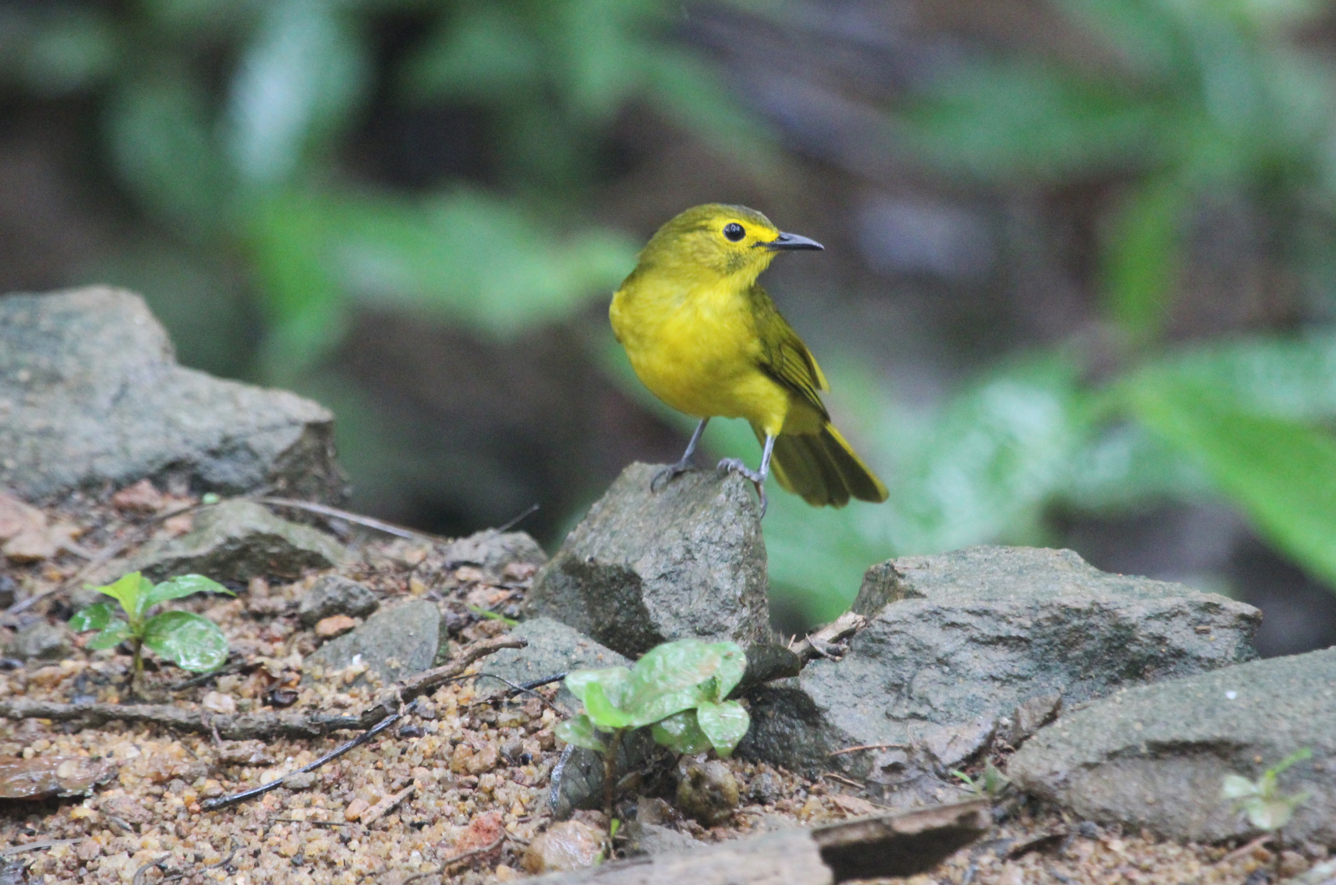 A Yellow-eared Bulbul near Sinharaja.